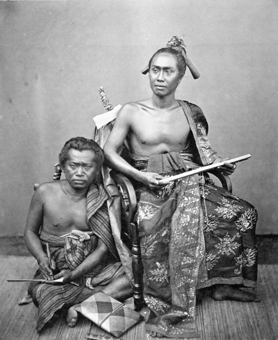 Gusti Ngura K'tut Djilantik, lord of Boleleng, Bali.